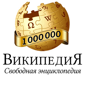 1M RuWiki logo 200%